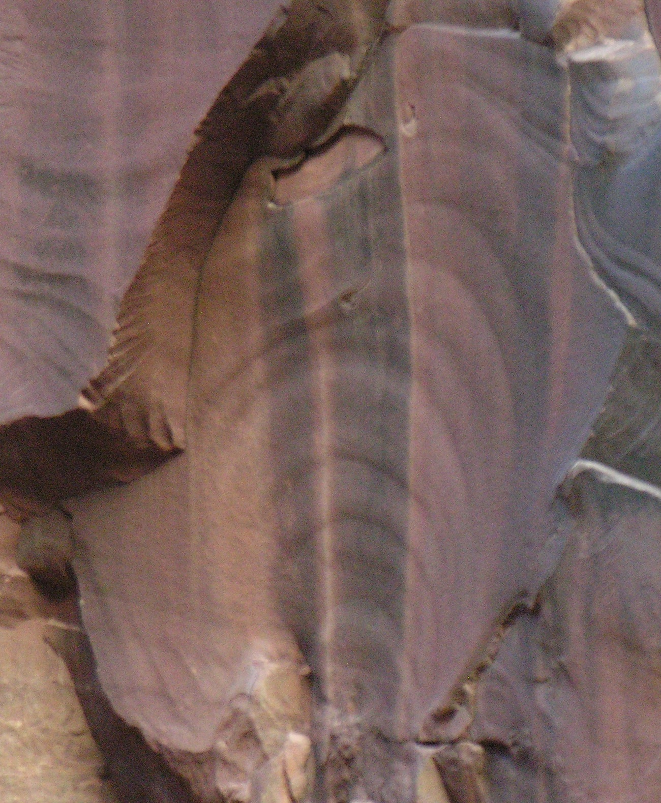 Plumose fracture patterns in North Canyon, Arizona